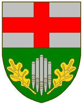 Wappen Bonerath